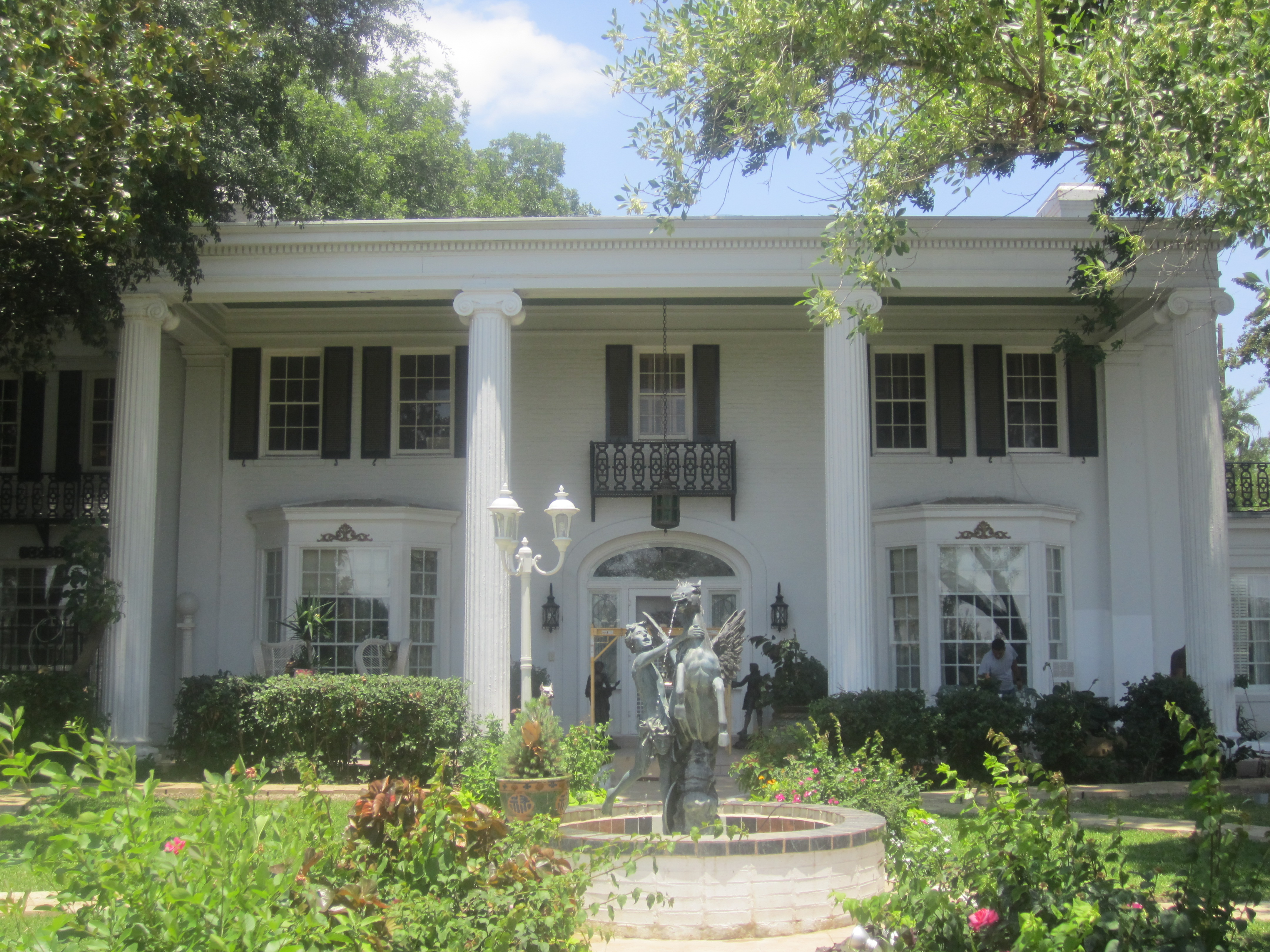 I took photo in Laredo, TX, with Canon camera.